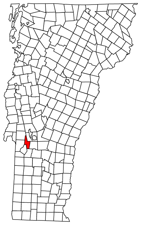 Description: Map of Vermont towns with Ira highlighted Source: Map created by Jared C. Benedict on 26 March 2004. Copyright: © Jared C. Benedict.